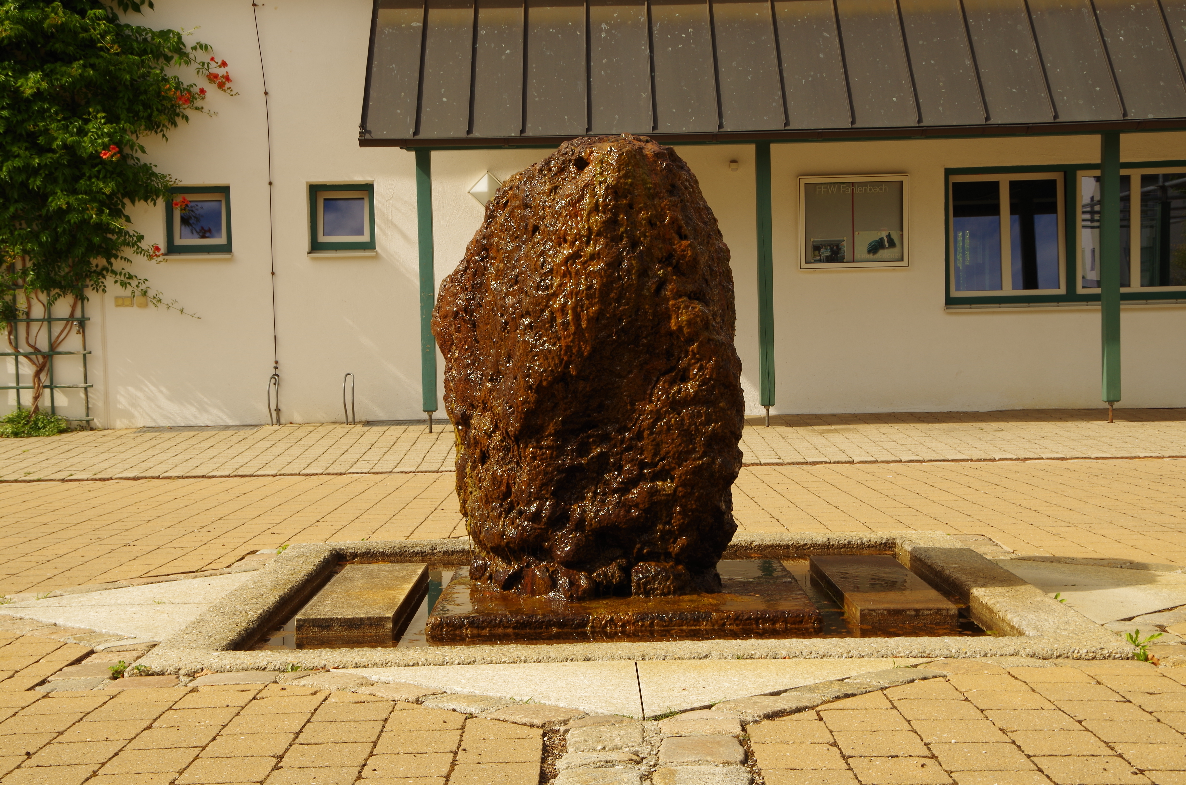 Well in Fahlenbach, Pfaffenhofen a.d. Ilm, Germany.